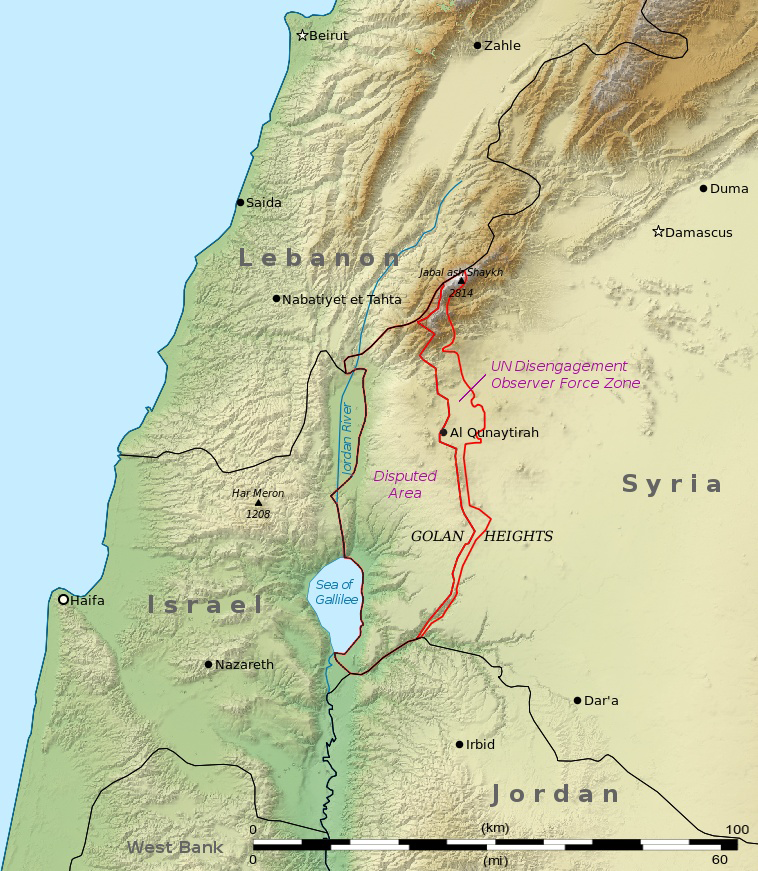 This is a shaded relief map illustrating the topography of the Golan Heights and surrounding areas. Transverse Mercator projection (EPSG: 2039) Source data: * Elevation data: SRTM data from NASA[1] * Borders, cities, and geographic features: The Natural Earth